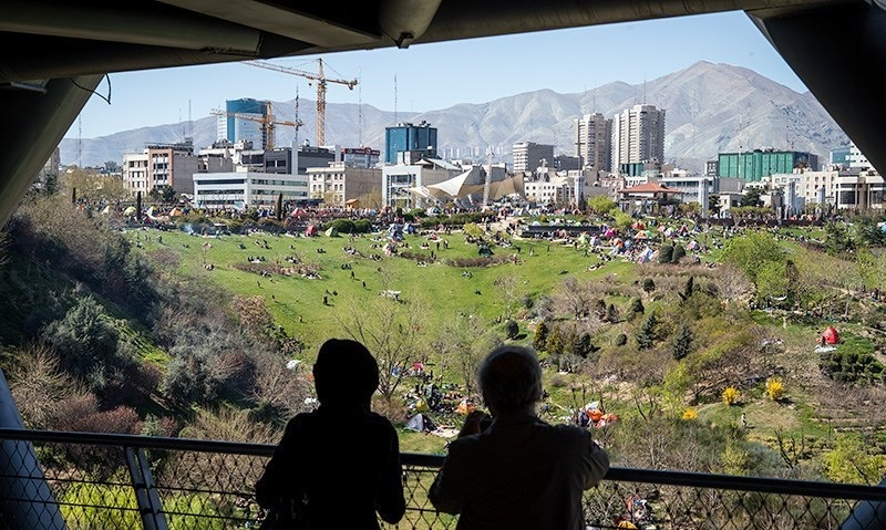 Sizdah be dar at the Ab va Atash Park